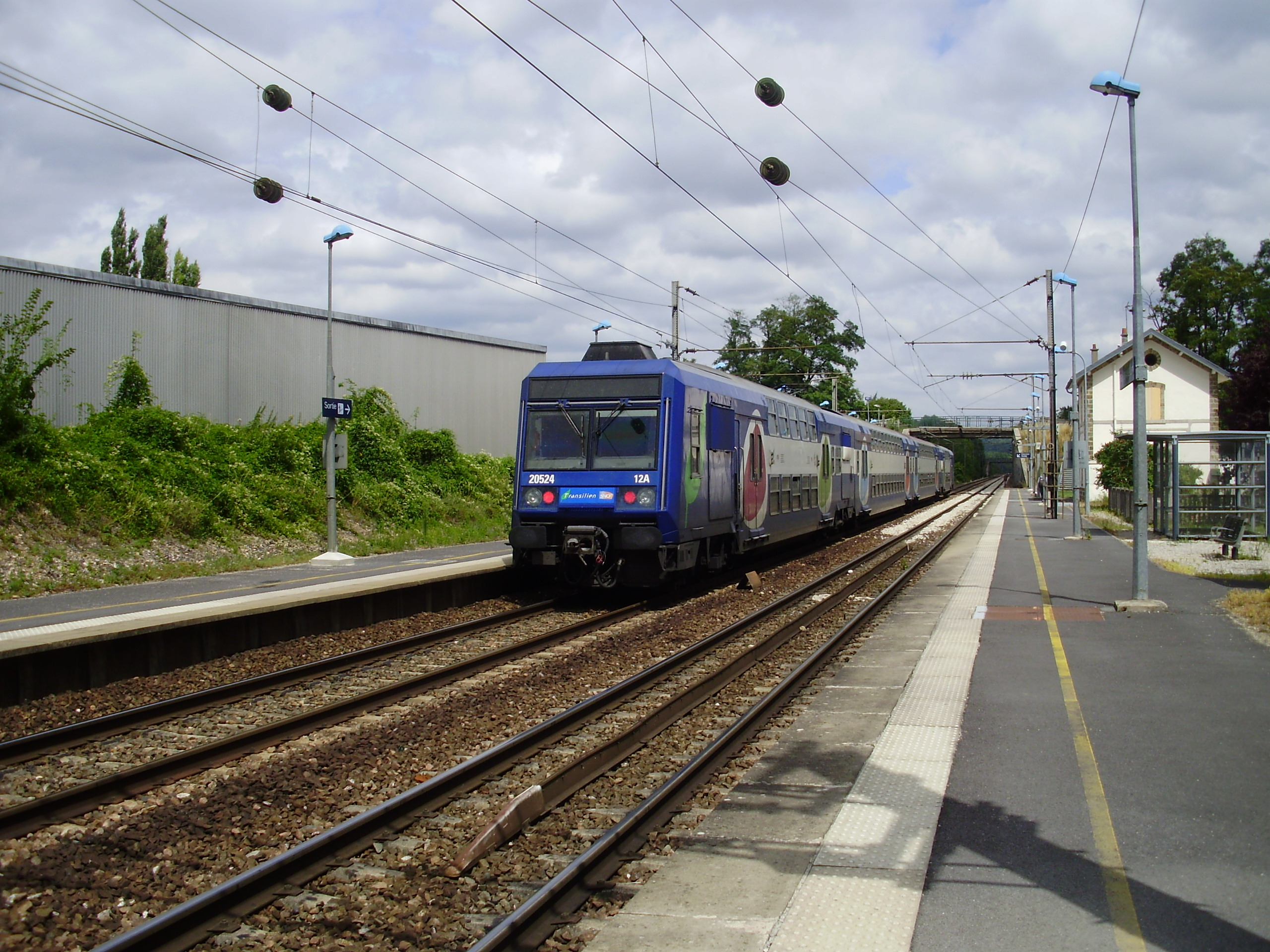 Chézy-sur-Marne station, Aisne, France, seen from the platform to Paris and looking to Château-Thierry with an electric multiple unit SNCF Class Z 20500